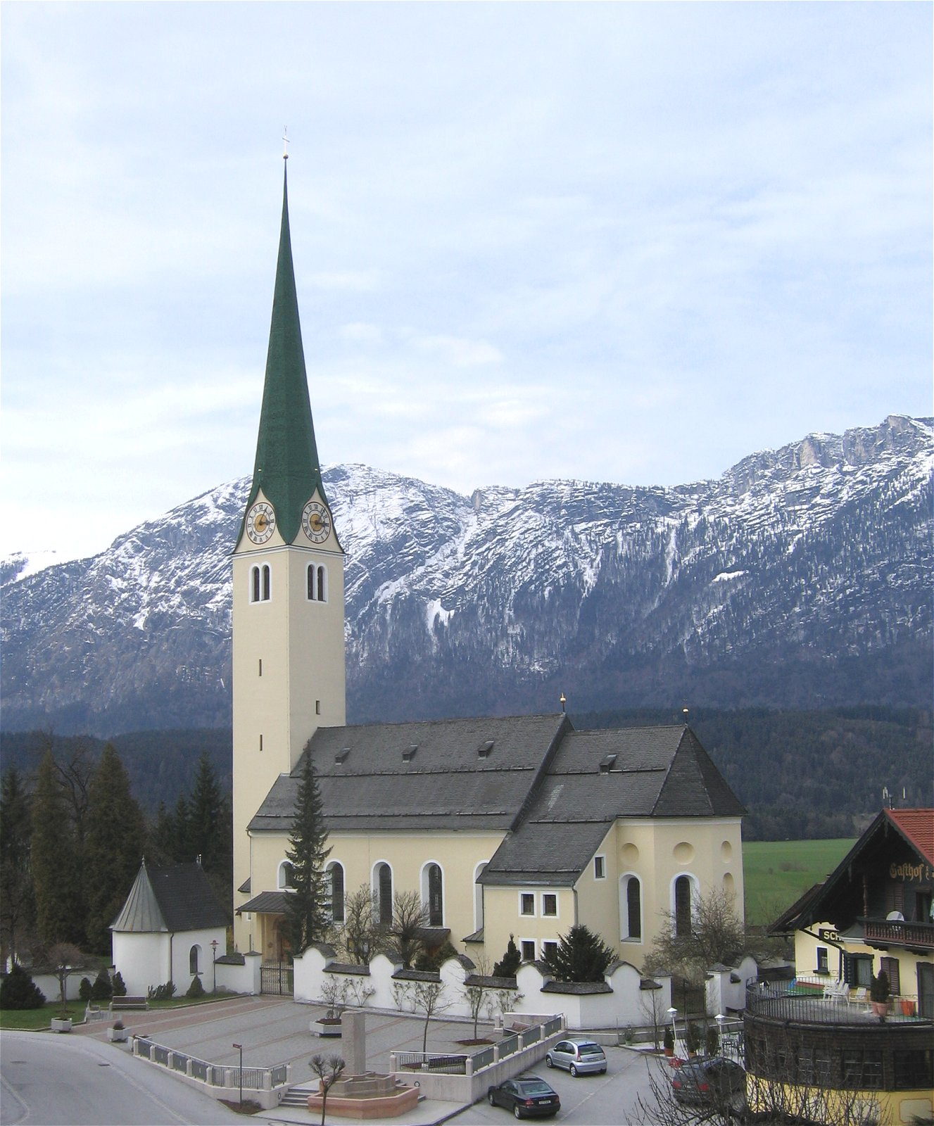 Kirchbichl, Parish Church of the Assumption from east.